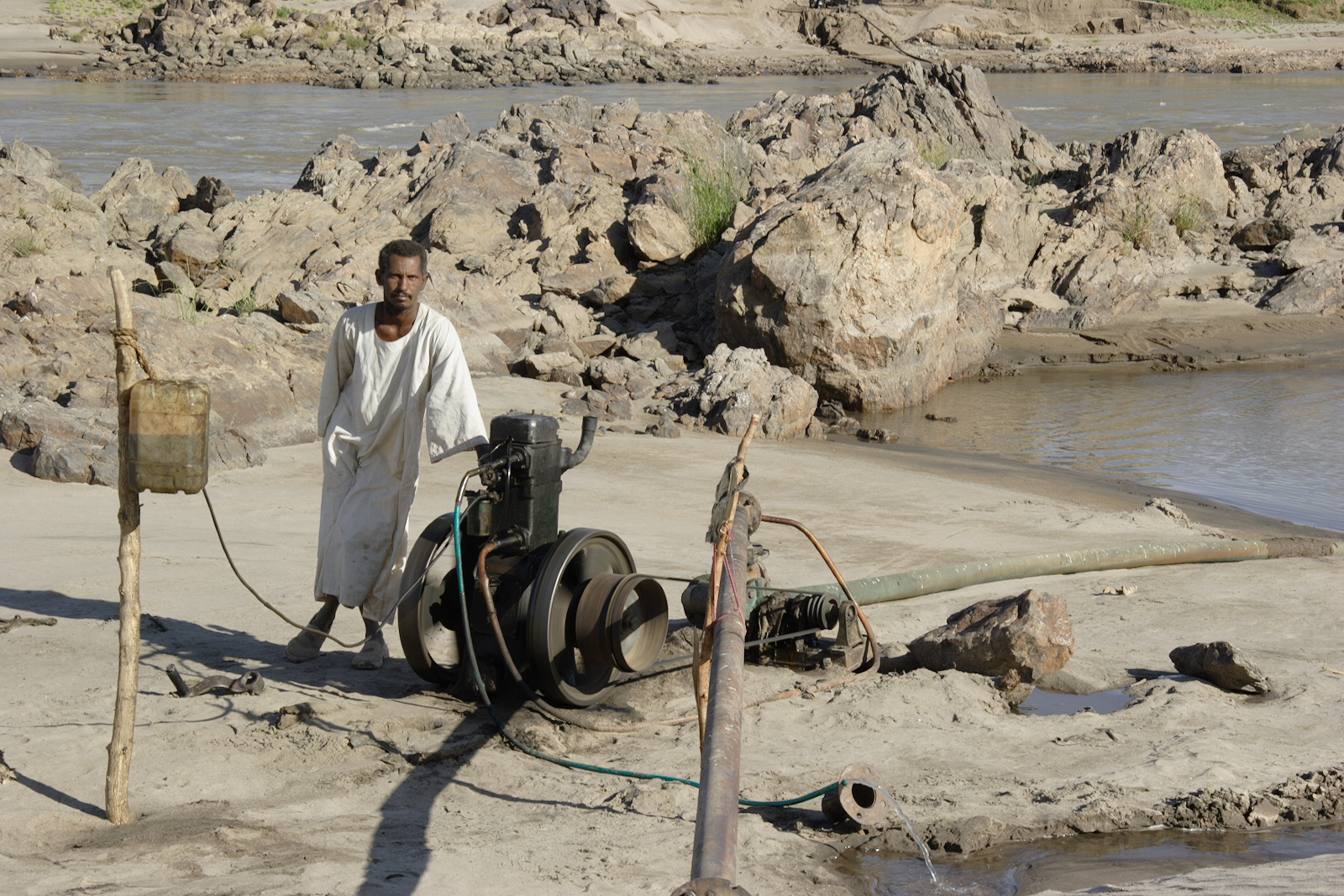 Babur (بابور) is the local name for the four stroke single combustion diesel pump that revolutionized irrigation agriculture along the Nile. Photo is taken on Atram Island in Dar al-Manasir, North Sudan. (c) GFDL David Haberlah (Homepage of David Haberlah, )